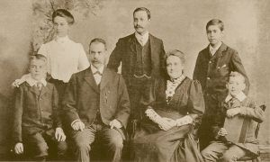 Smith Wigglesworth's family in about 1900.Top - Alice, Seth and Harold.Bottom - Ernest, Mary Jane (Polly) and George.